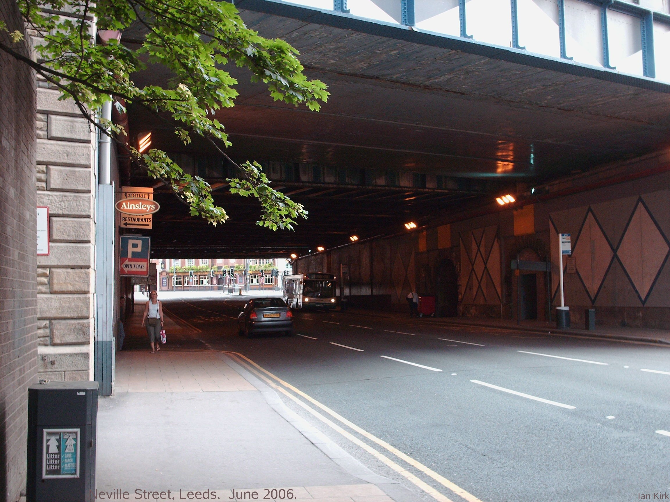 The road under Leeds railway station, England. Neville Street, Leeds.